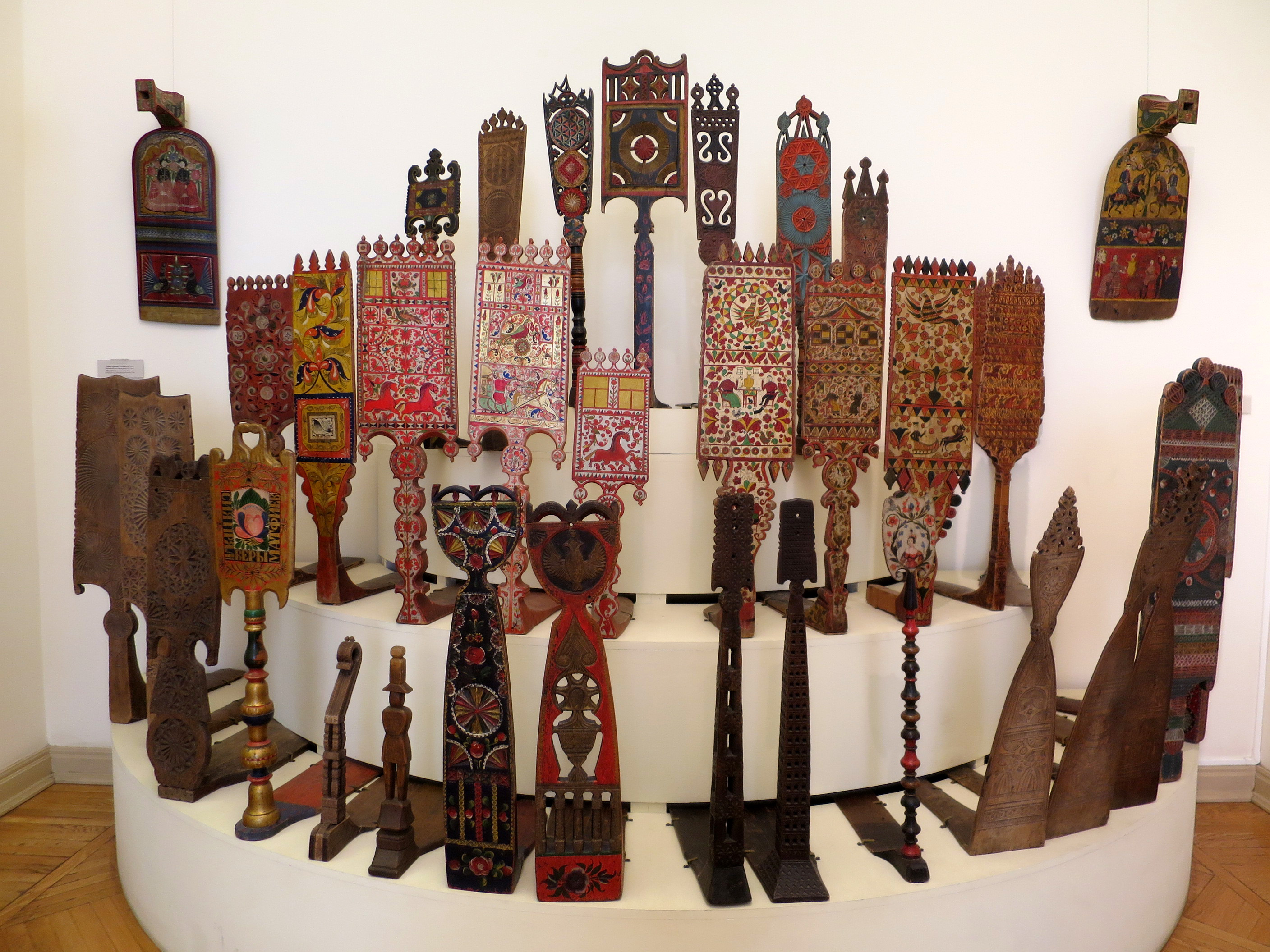 Russian Distaffs from folk art collection of the the State Russian Museum of St Petersburg.